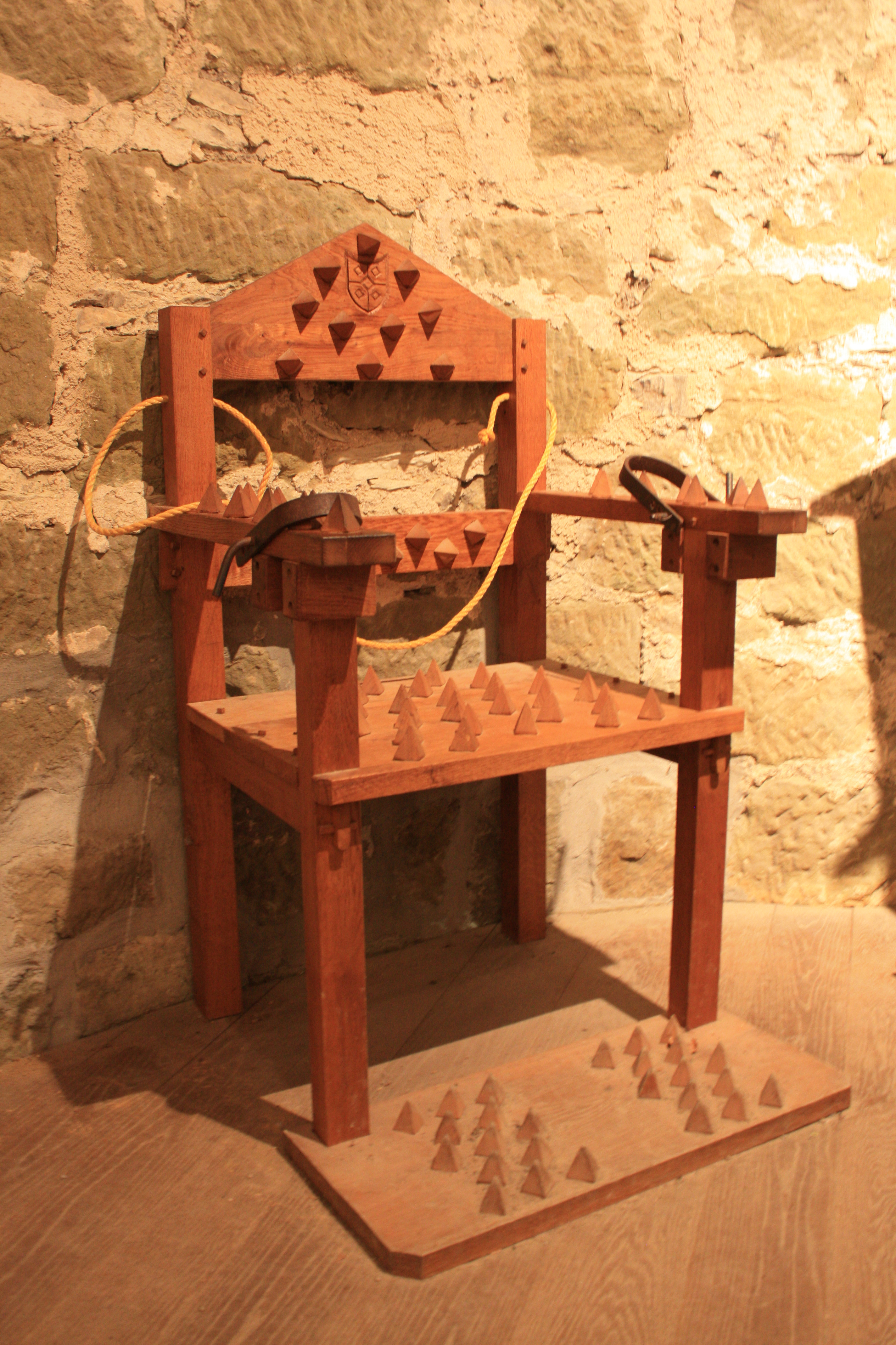 Folterstuhl (Nachbau) im Hexenturm in Rüthen. A geocoded location could be added to this image. Visit Commons:Geocoding for information on how to add coordinates. Beta-test: Add coordinates helps to determine coordinates.